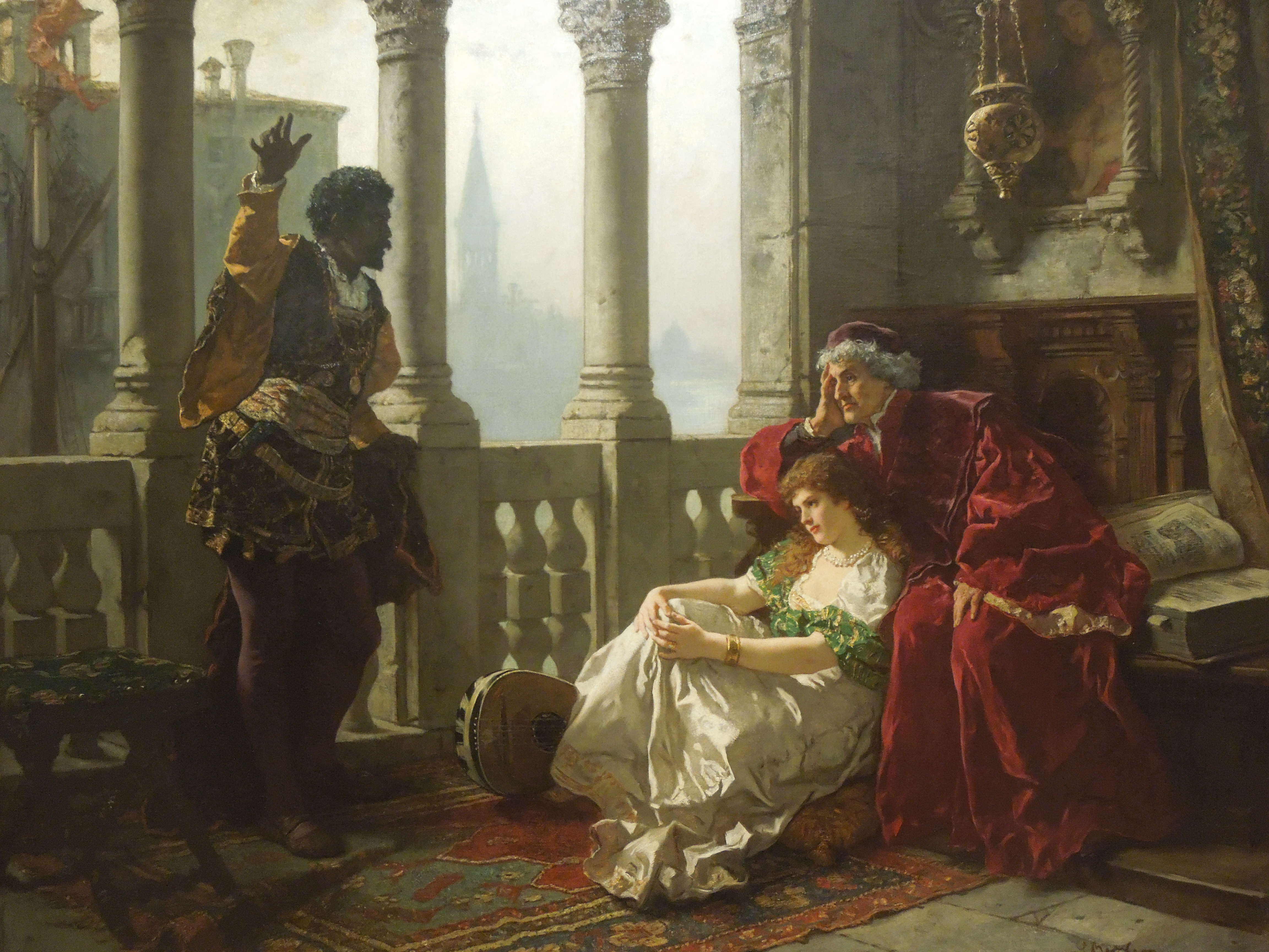 Carl Ludwig Friedrich Becker - Othello Tells the Stories of His Adventures, ca. 1880